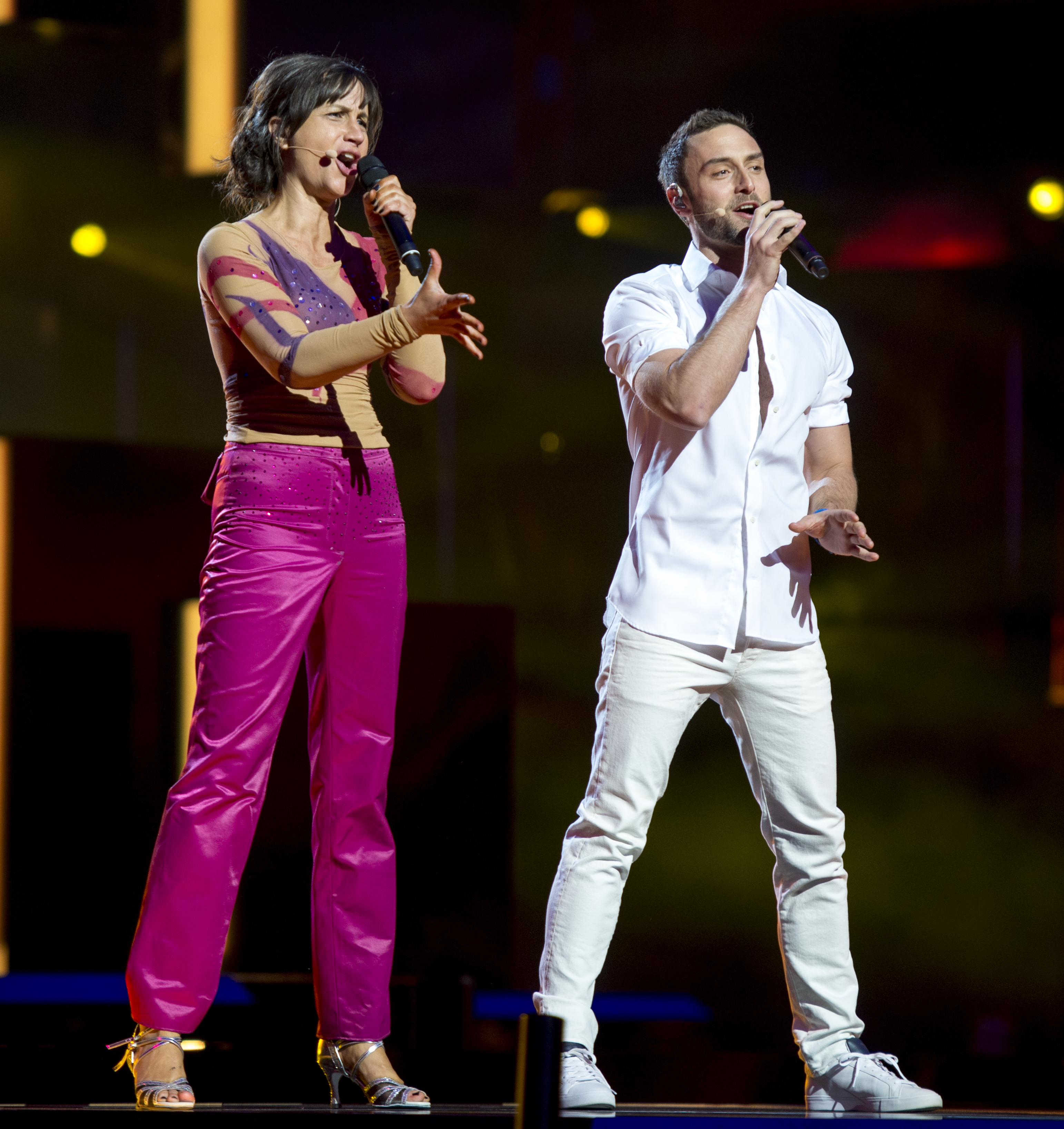 The interval act of the final, during the first dress rehearsal of the Eurovision Song Contest 2016 in Stockholm. (Help translate this text)